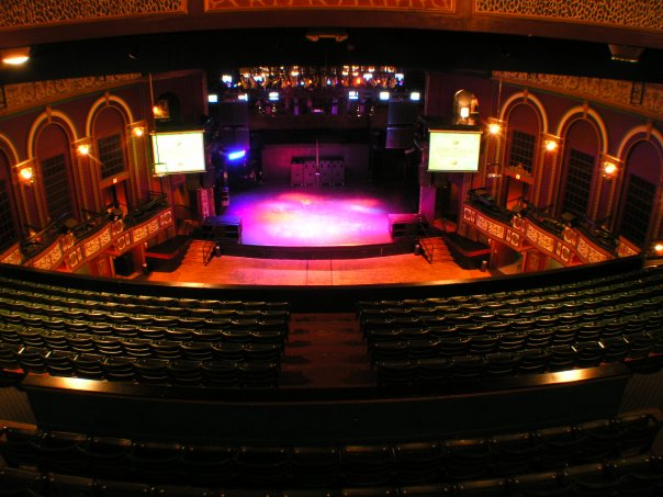 Emerald Theatre photo taken from balcony to stage depicting Beaux-Arts architecture